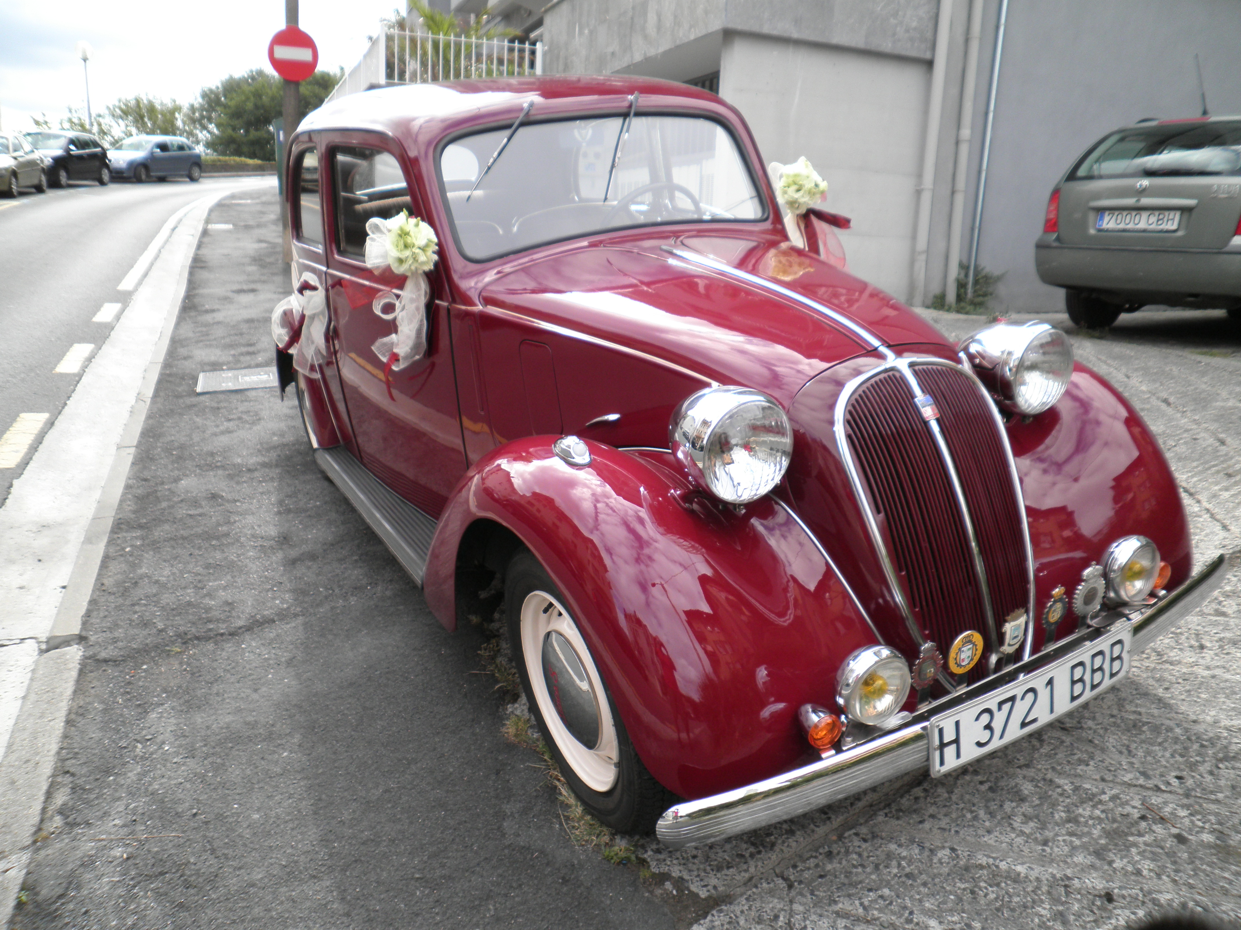 Wedding car in San Sebastian, Basque Country.